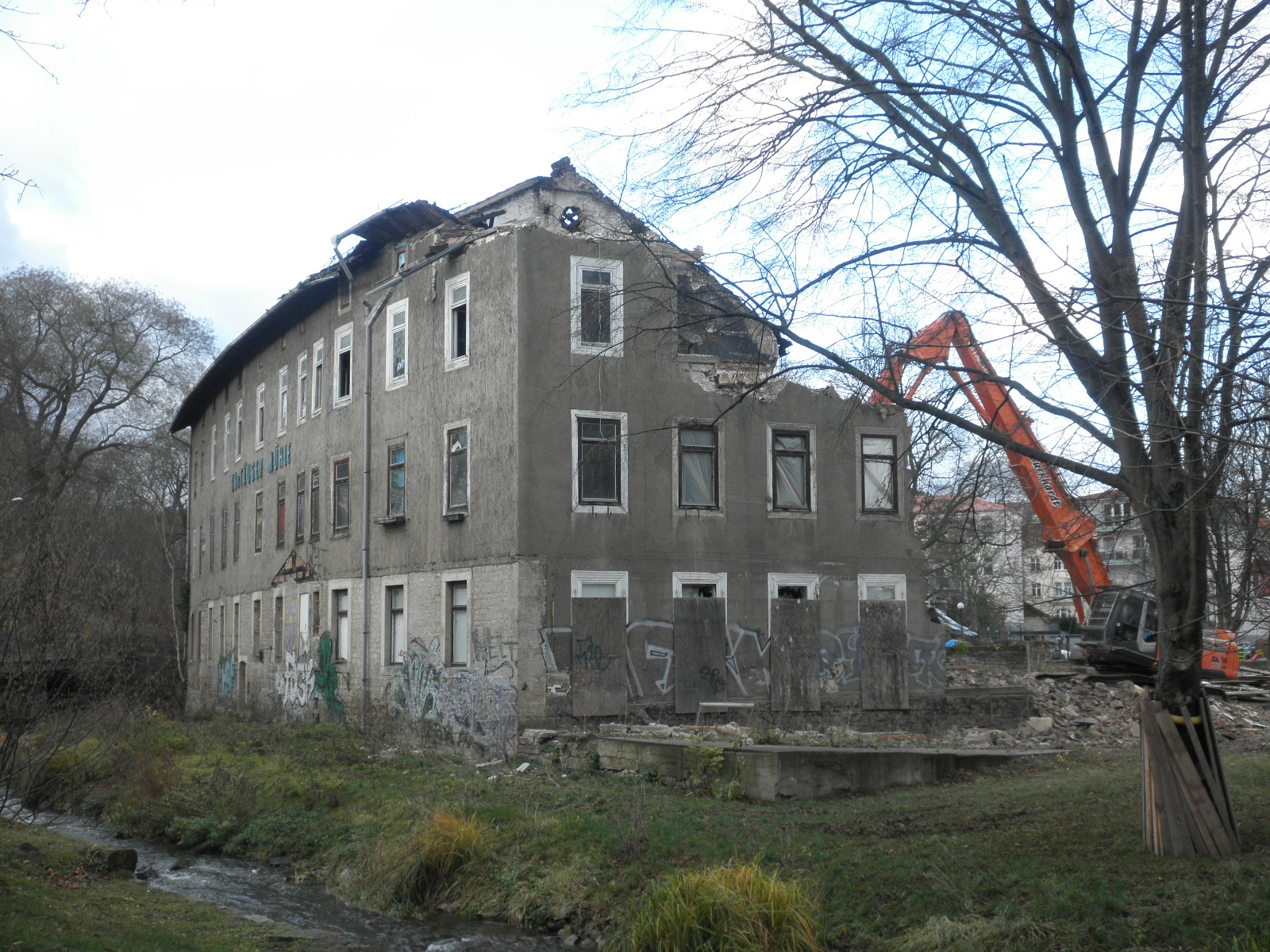 Kartäuser Mill in Erfurt